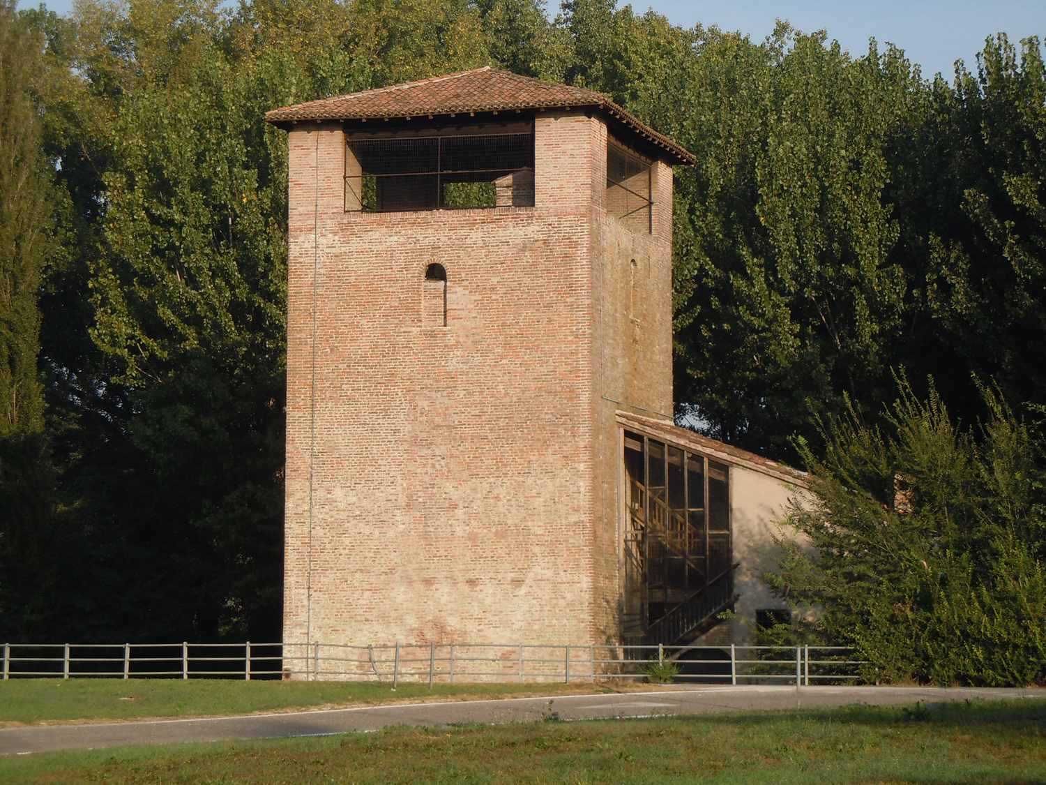 Mantua, Sparafucile's rock.